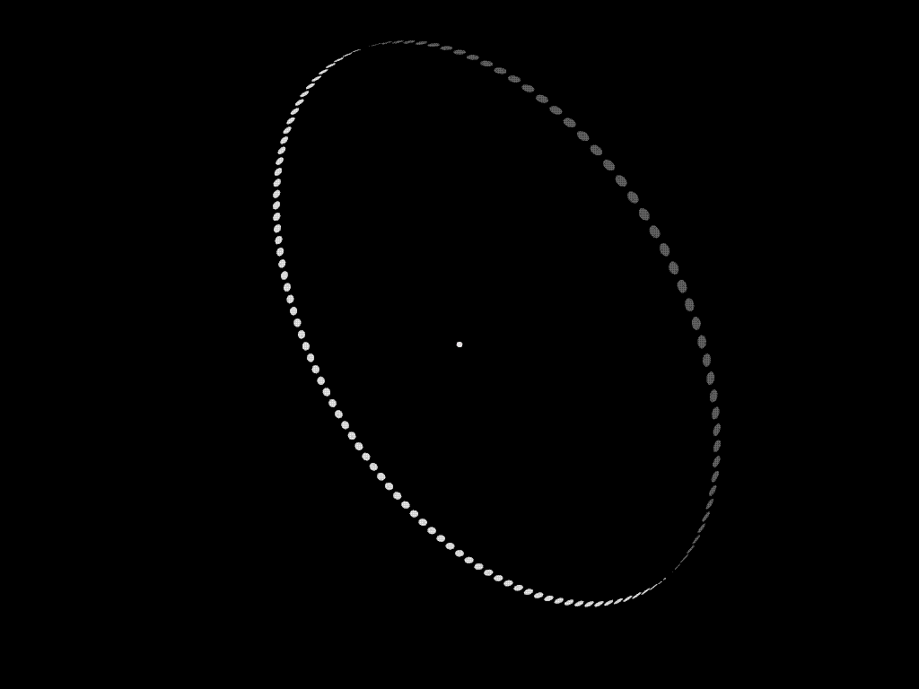 An illustration of a Dyson Ring. To scale. Sun is accurately colored according to spectral type. Orbit is depicted at 1 AU radius. Collectors are 1.0 x 107 km in diameter, or ~25 times the distance between the Earth and the Moon. Collectors are spaced 3 degrees from midpoint to midpoint, around the orbital circle. Camera perspective is from a point 2 AU from the sun.